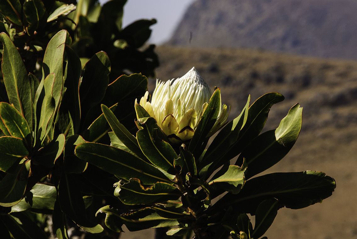 A few photos taken during field work near Barberton, South Africa (July 2-4, 2012)